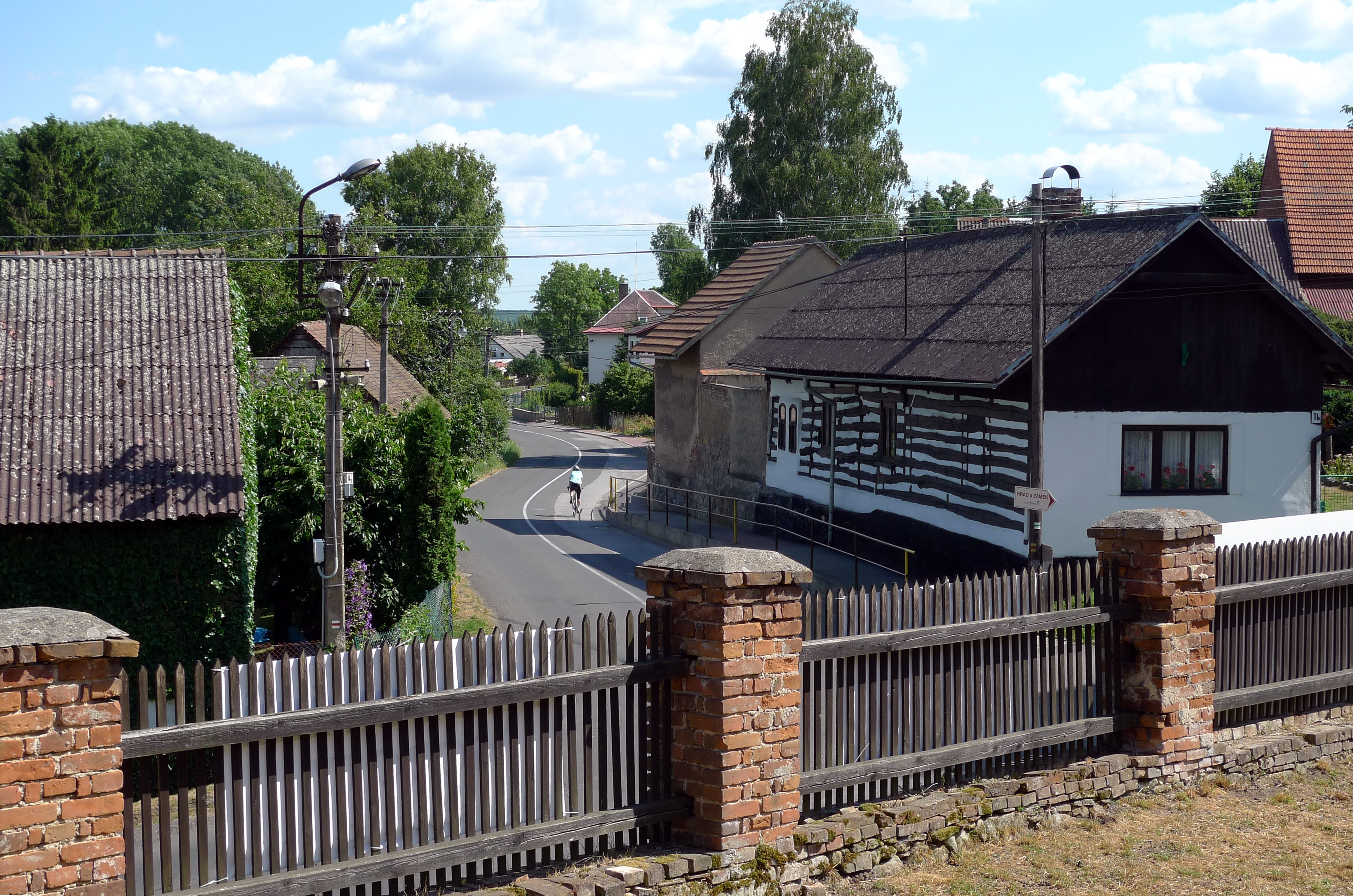 Village of Staré Hrady, Czech Republic. Česky: Hlavní ulice ve Starých Hradech v České republice.